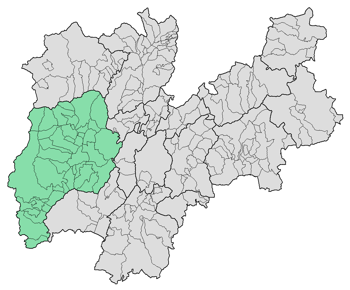 Location map of "Comunità delle Giudicarie" (8)